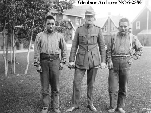 Sinnisiak (left), Inspector Denny LaNauze (centre), Uloqsaq (right). This Canadian work is in the public domain in Canada because its copyright has expired due to one of the following: 1. it was subject to Crown copyright and was first published more than 50 years ago, or it was not subject to Crown copyright, and 2. it is a photograph that was created prior to January 1, 1949, or 3. the creator died more than 50 years ago.